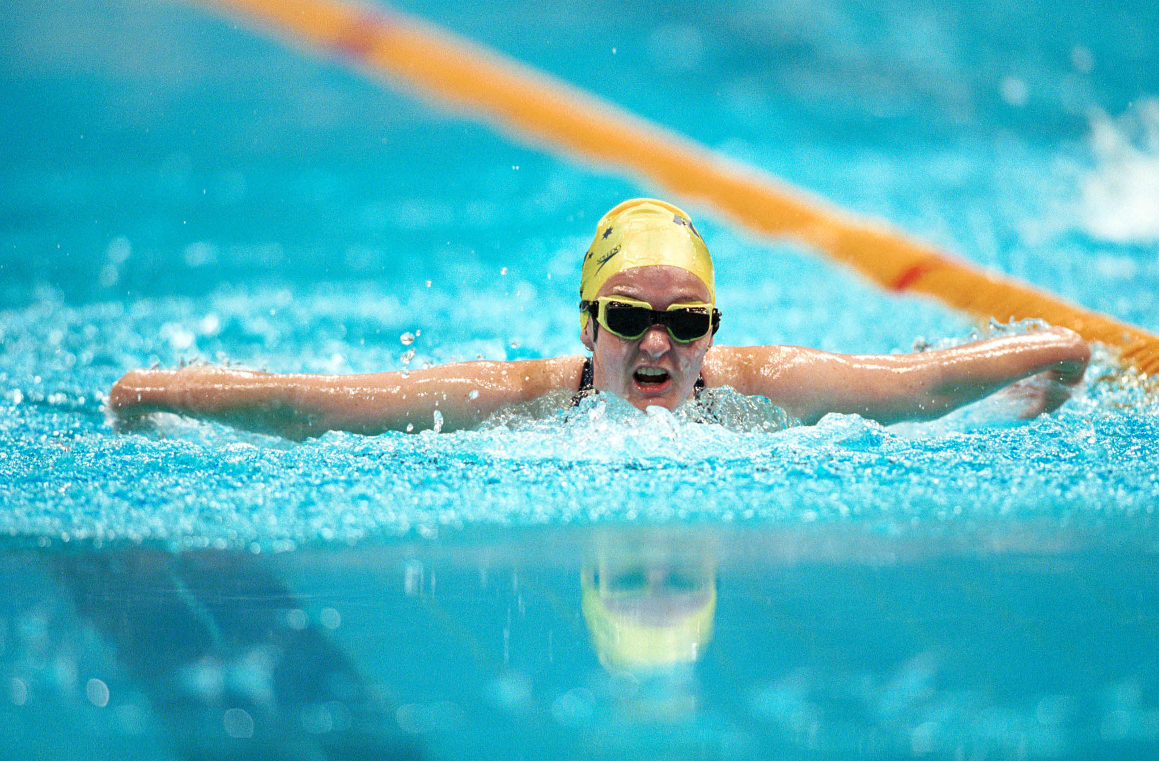 Action shot of Australian swimmer Tracey Cross in the pool during Day 03 of the 2000 Sydney Paralympic Games